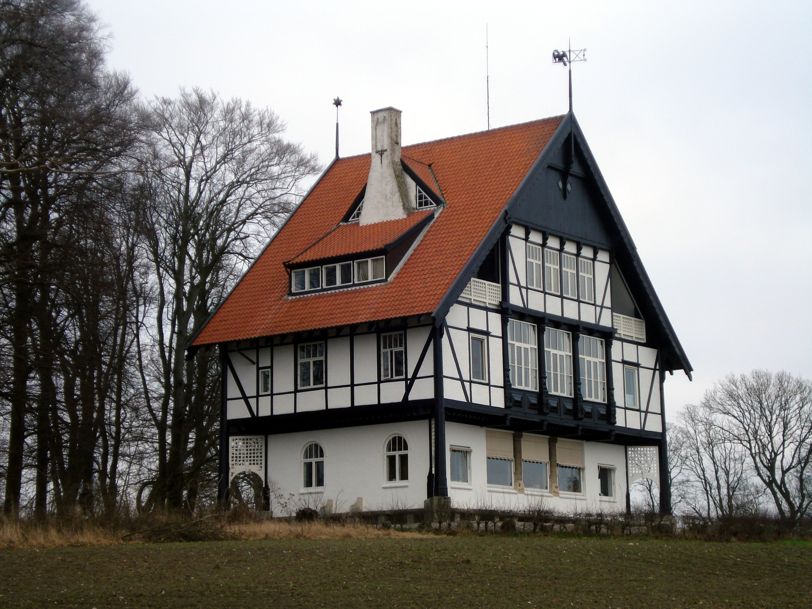 Jagtslottet ("The Hunters Castle") at Kalø Hovedgård, Jutland, Denmark. It houses the secretariat of Mols Bjerge National Park.